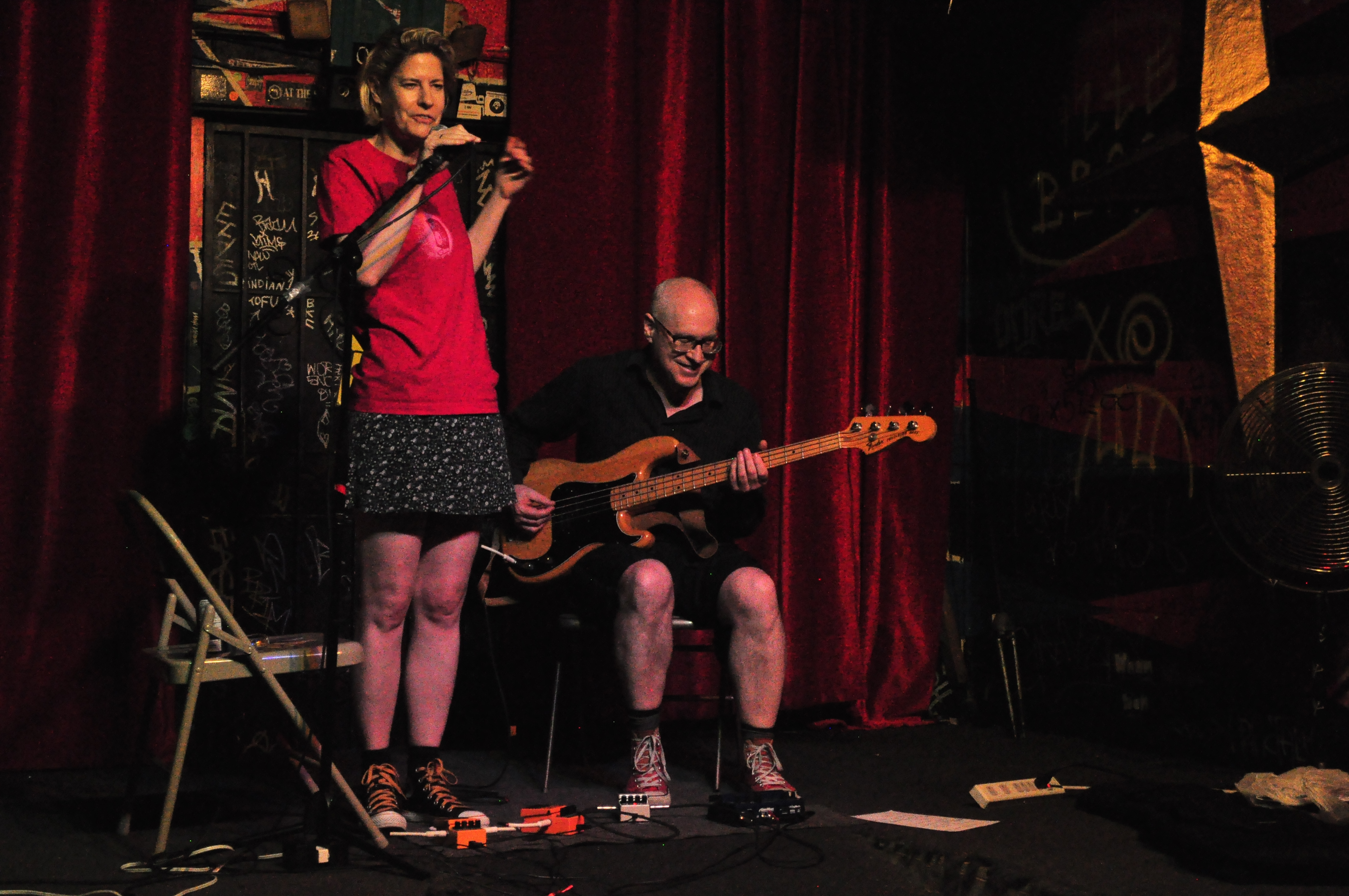 Wendy Atkinson and David Lester at Le Voyeur, Olympia, Washington as part of the 21st Olympia Experimental Music Festival.